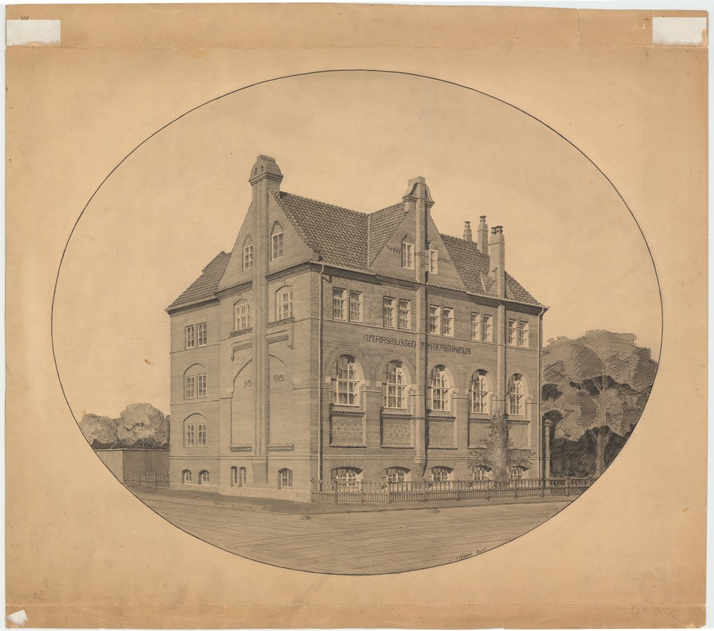 Gymnastikhuset in Frederiksberg, Copenhagen, Denmark